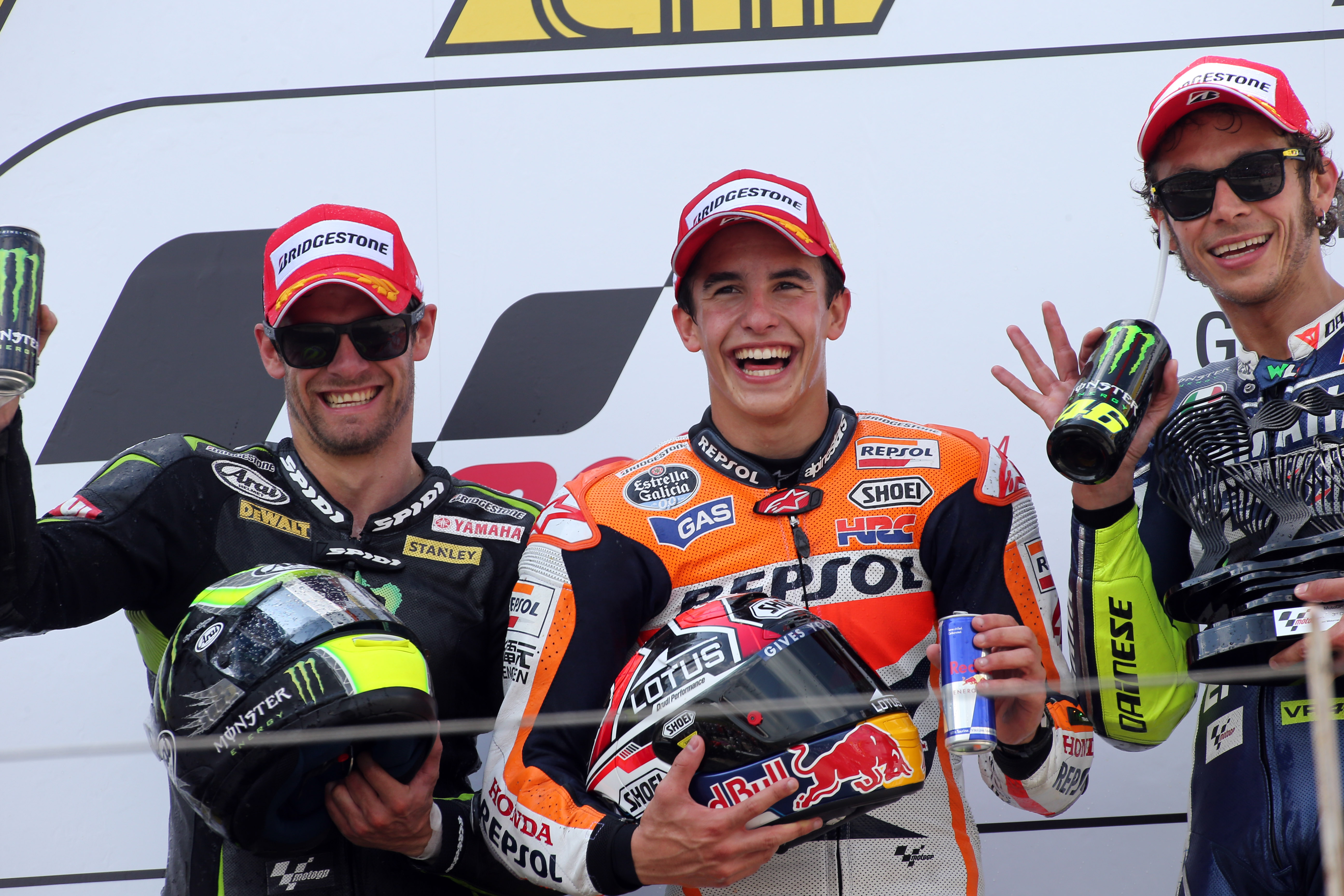 Cal Crutchlow, Marc Márquez and Valentino Rossi, celebrating on the podium after finishing in second, first and third place at the 2013 German Grand Prix.